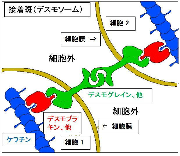 japanese version of desmosome